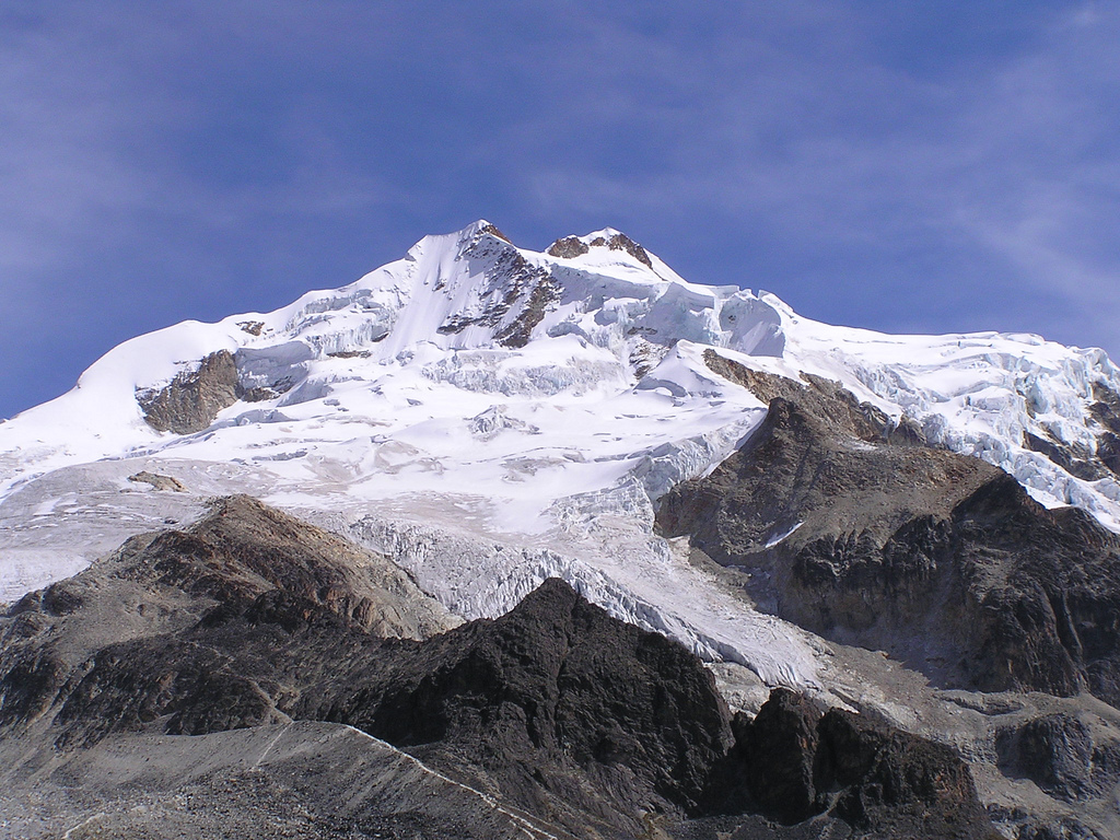 6088m high, 25km north of La Paz, Bolivia